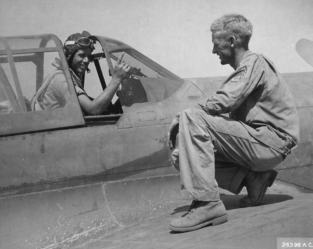 P-40 pilot Lieutenant Bernie Byrne (in plane) of the 33rd Fighter Group's 59th Fighter Squadron indicates to his crew chief, Staff Sergeant Bernhard Reed of Calvis, Maine, that he has claimed his first victory, a German Fw 190 over Salerno. Photo taken at Paestum airfield